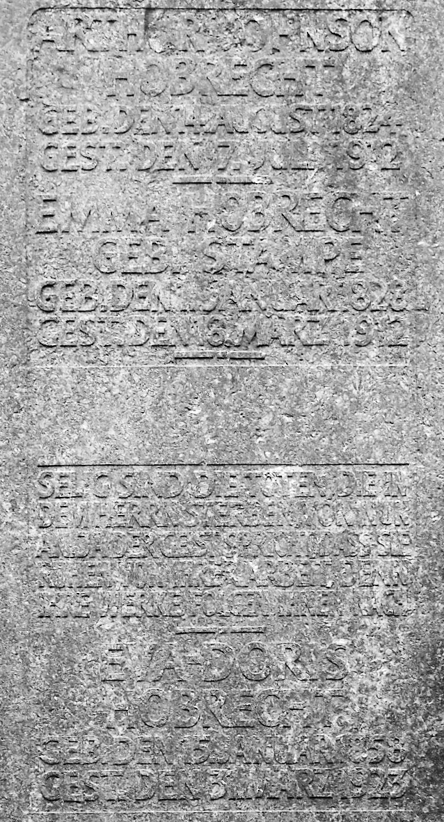 Inscription tombstone of Arthur Hobrecht